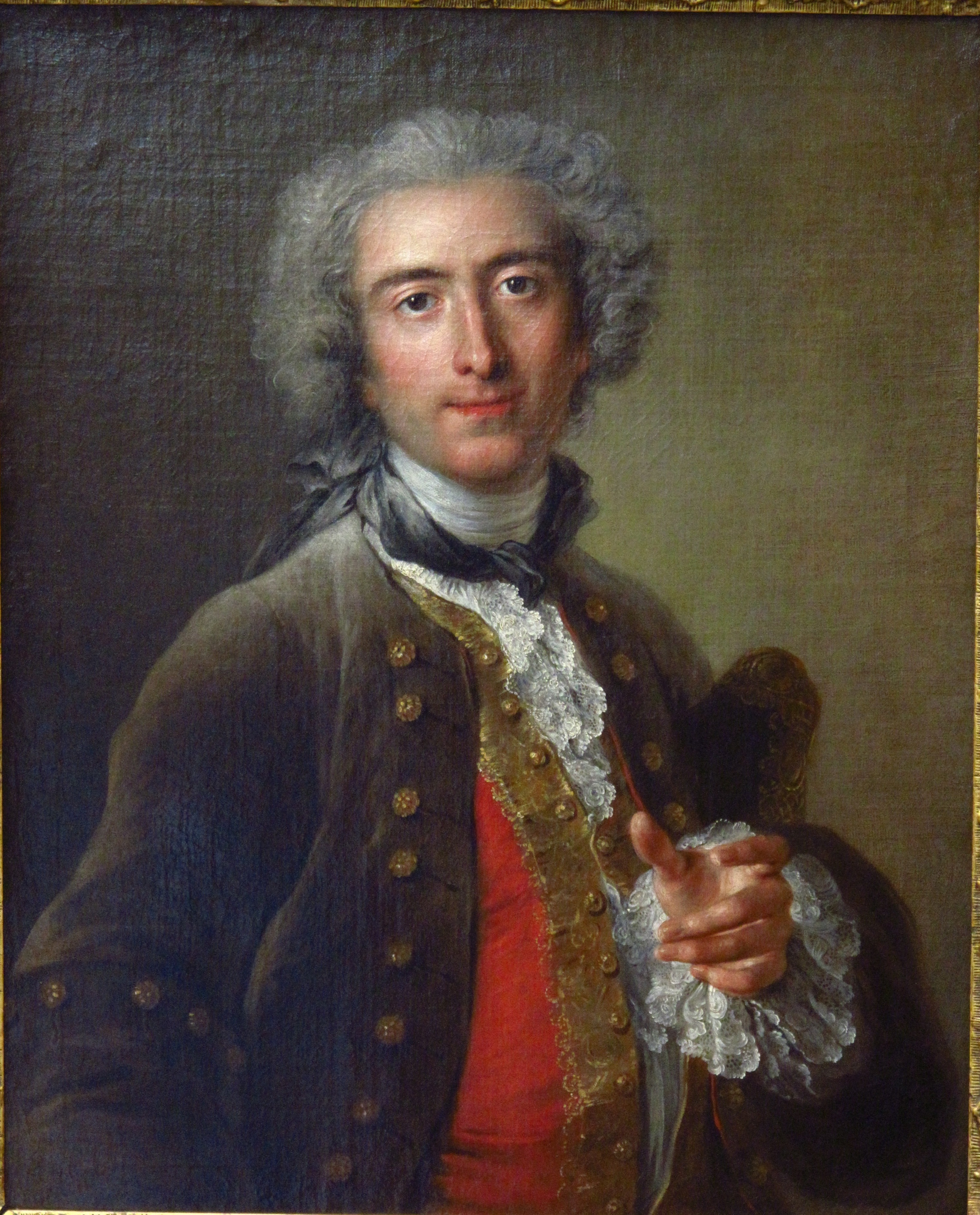 Philippe Coypel (1703-1777), brother of the painter